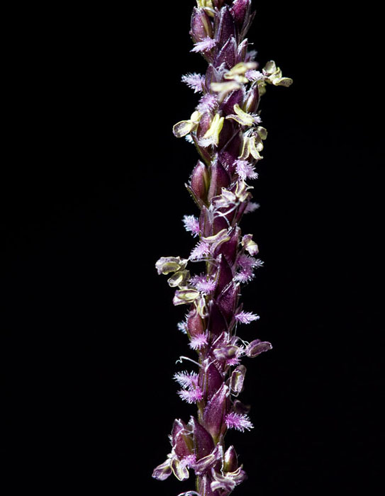 Bermuda Grass Flower and seed pod. Also know as Cynodon dactylon (syn. Panicum dactylon, Capriola dactylon), also known as dūrvā grass, Bermuda Grass, Dubo, Dog's Tooth Grass, Bahama Grass, Devil's Grass, Couch Grass, Indian Doab, Grama, and Scutch Grass